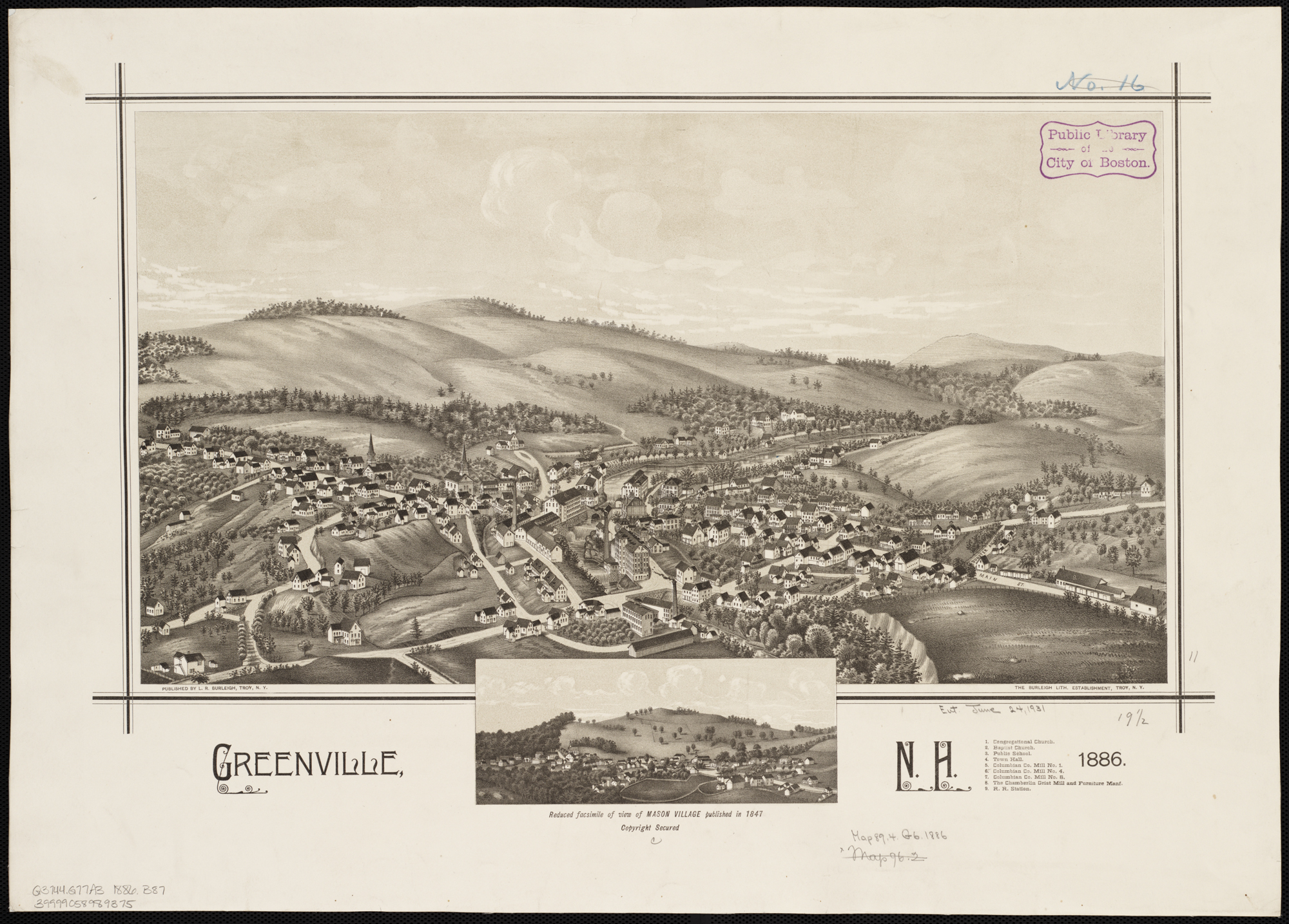 Zoom into this map at . Author: Burleigh, L. R. Publisher: L.R. Burleigh Date: 1886 Location: Greenville (N.H.) Scale: Not drawn to scale. Call Number: G3744.G77A3 1886.B87